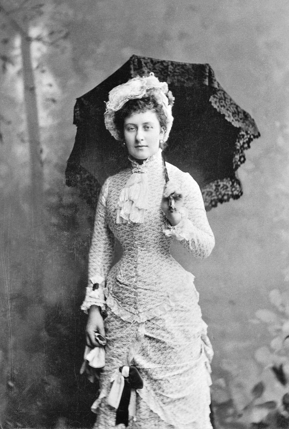 Princess Louise, Marchioness of Lorne